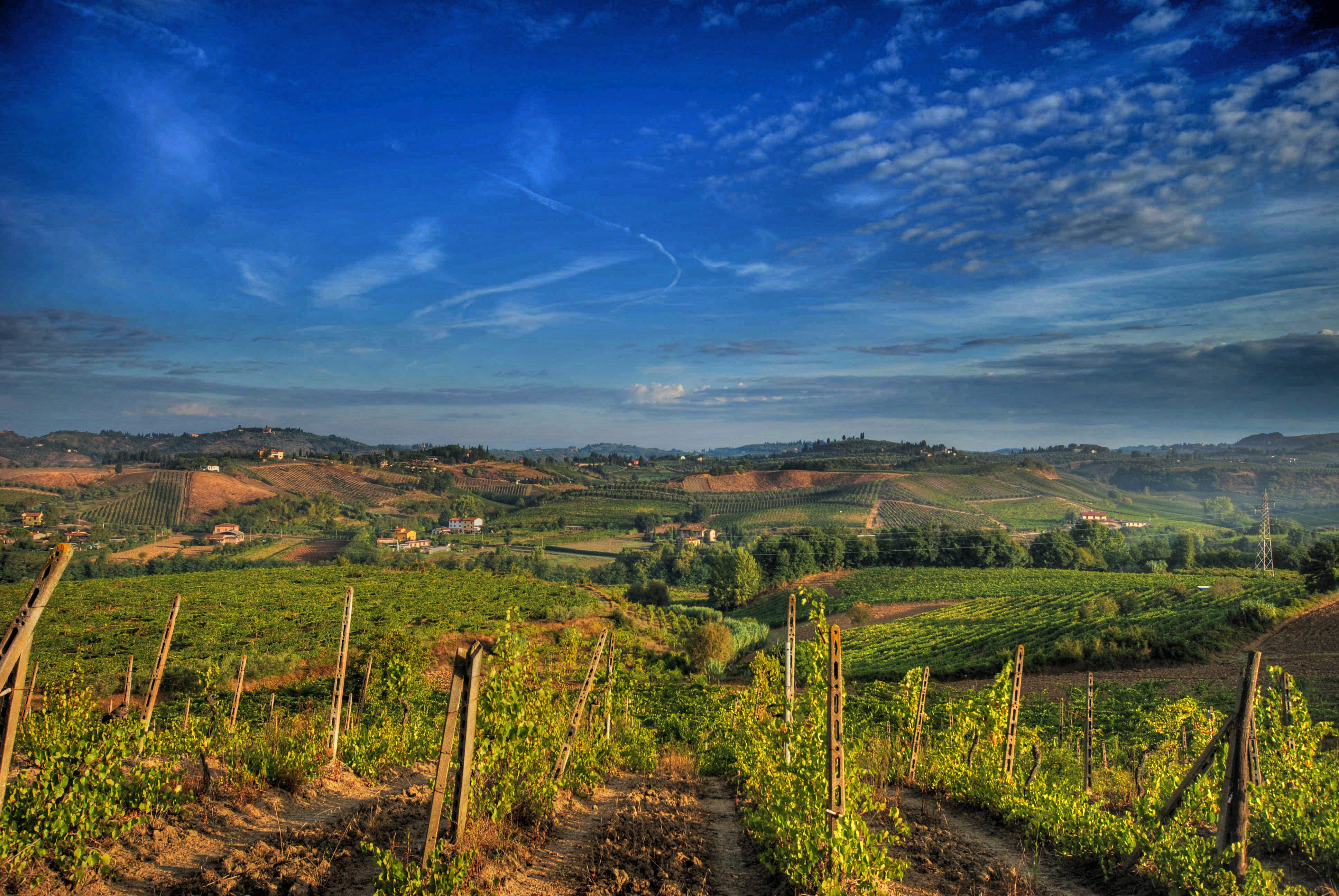 Grapevines in the Chianti wine zone of Tuscany in Central Italy